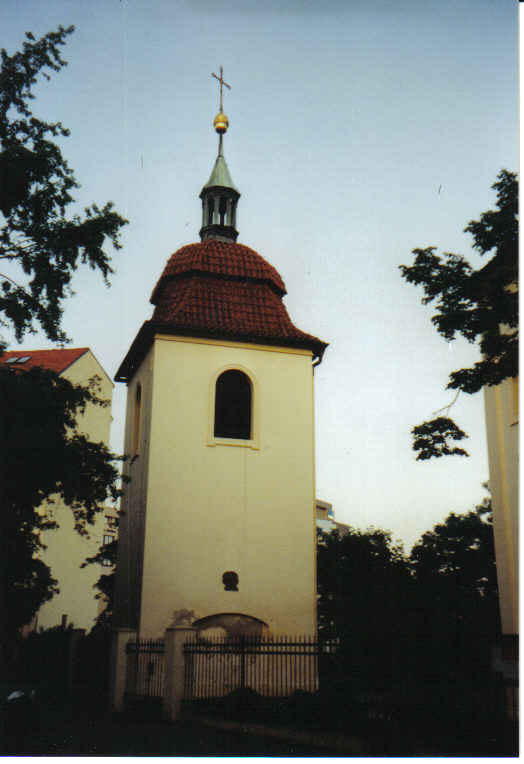 St. Pancratius church in Prague, tower